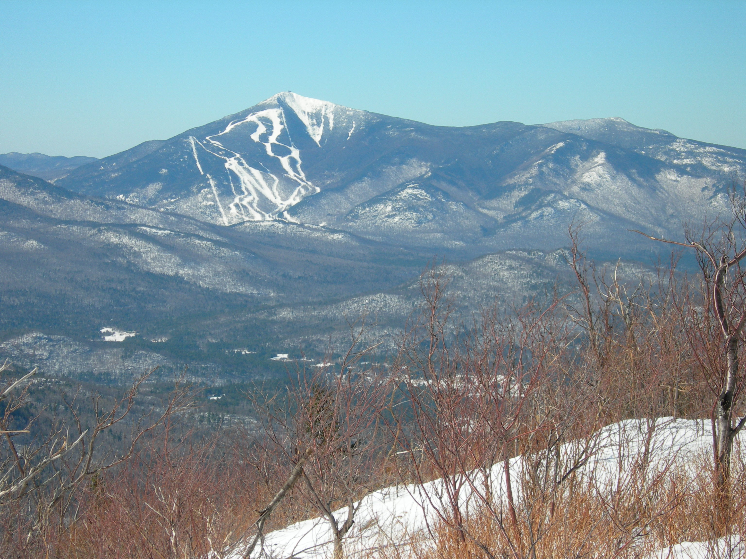 Whiteface Mt. and Esther Mt., seen from Jay Mt. ridge, Adirondacks, NY